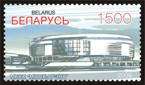 The stamp with Minsk-Arena building